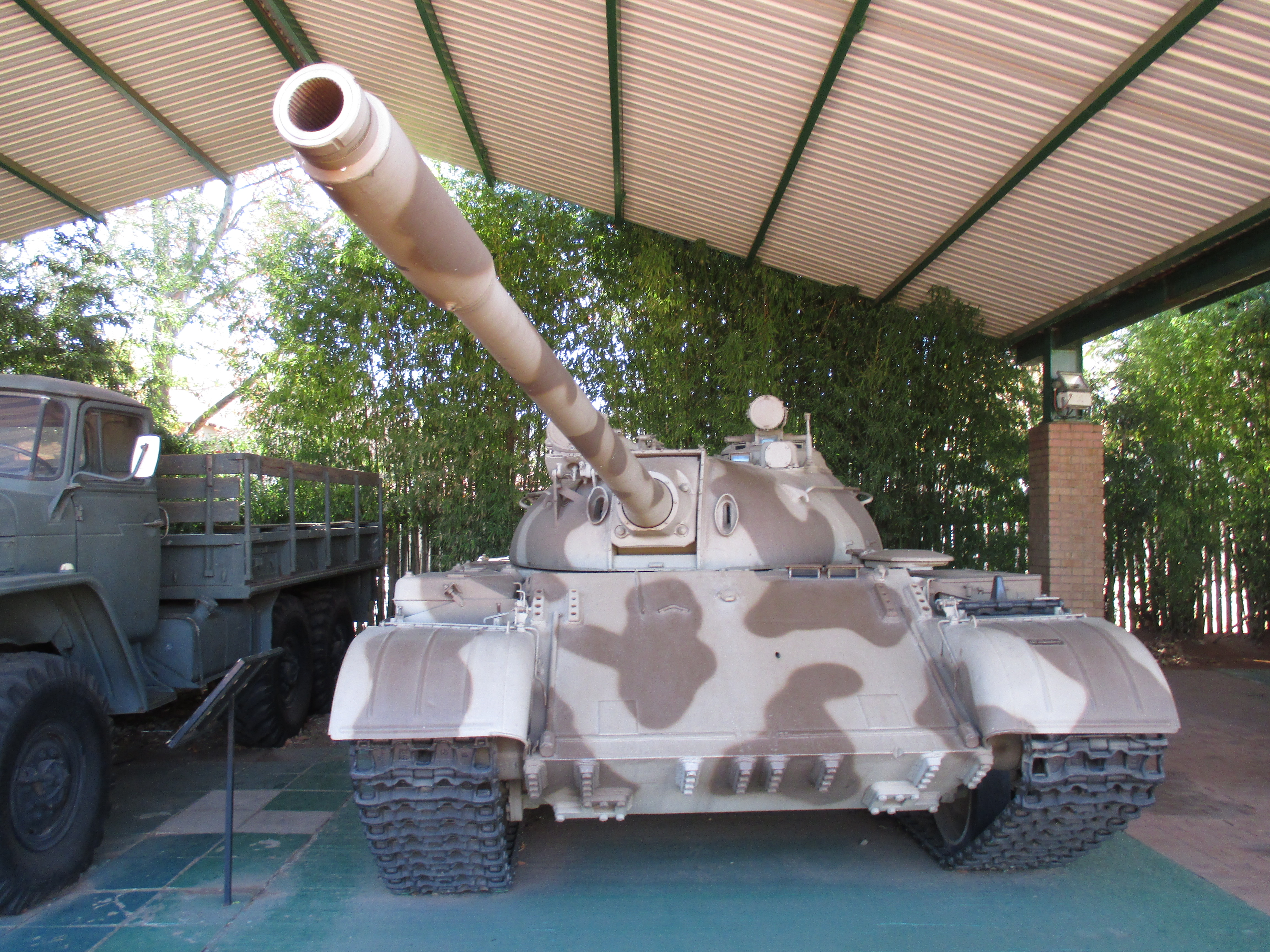 Description: T-55 tank at the South African National Museum of Military History, Johannesburg; designated "T-55LD" by the museum according to stamped markings on the turret ("D", indicating the turret mark) and front glacis plate ("L", indicating the hull mark). Manufacturer's description indicates source of origin as being Bumar-Łabędy Works, Poland, 1975. Sources disagree on whether this particular tank was a new T-55 manufactured in Poland around 1975 or an older, reconverted T-54 simply remanufactured in 1975; additionally, it is possible that the turret and chassis came from two separate tanks manufactured at different dates. The T-55LD may have been a T-54 tank rebuilt to T-55A (Polish designation: T-55L) standards, or simply a new T-55A/T-55L.